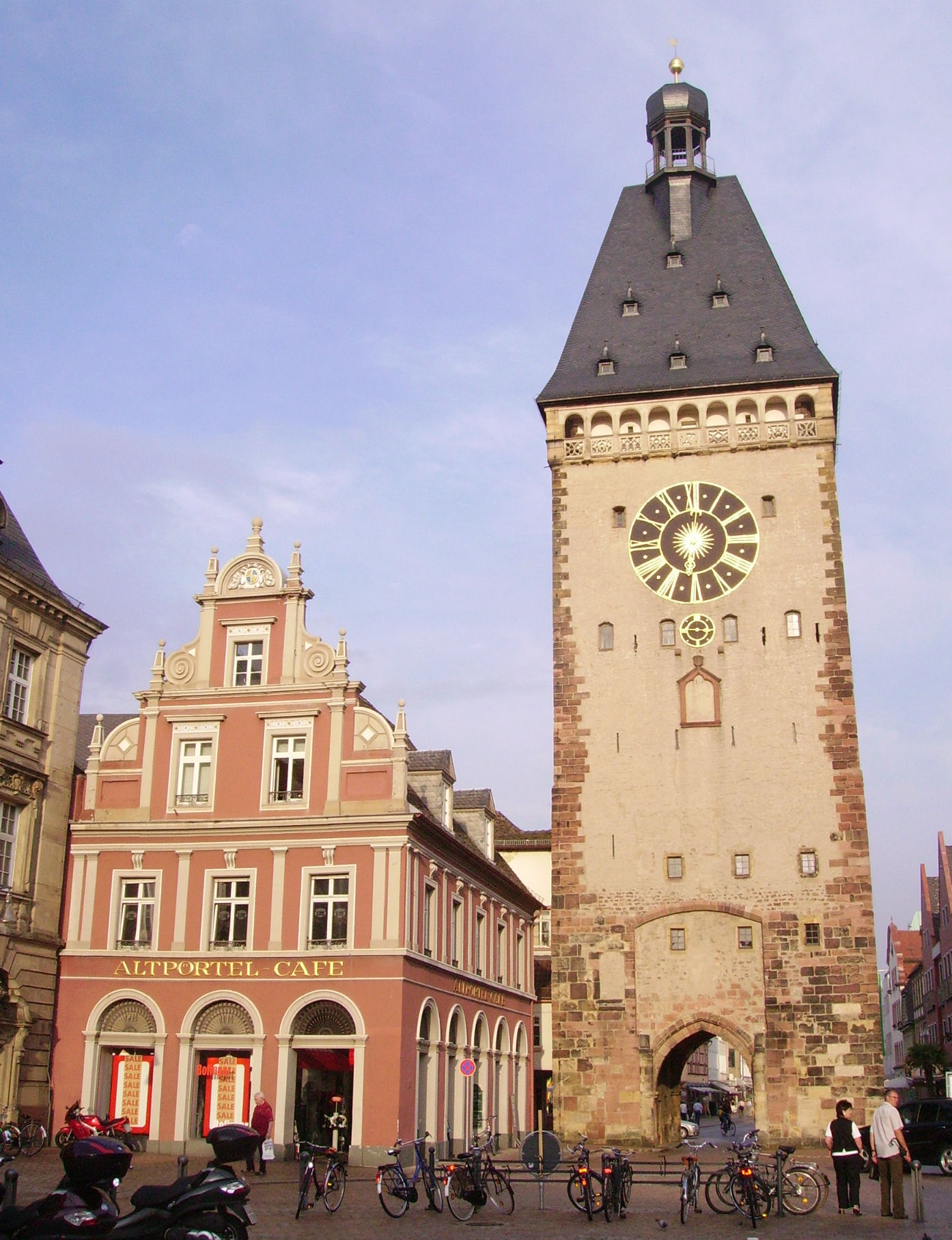 Altpörtel city gate in Speyer, Germany